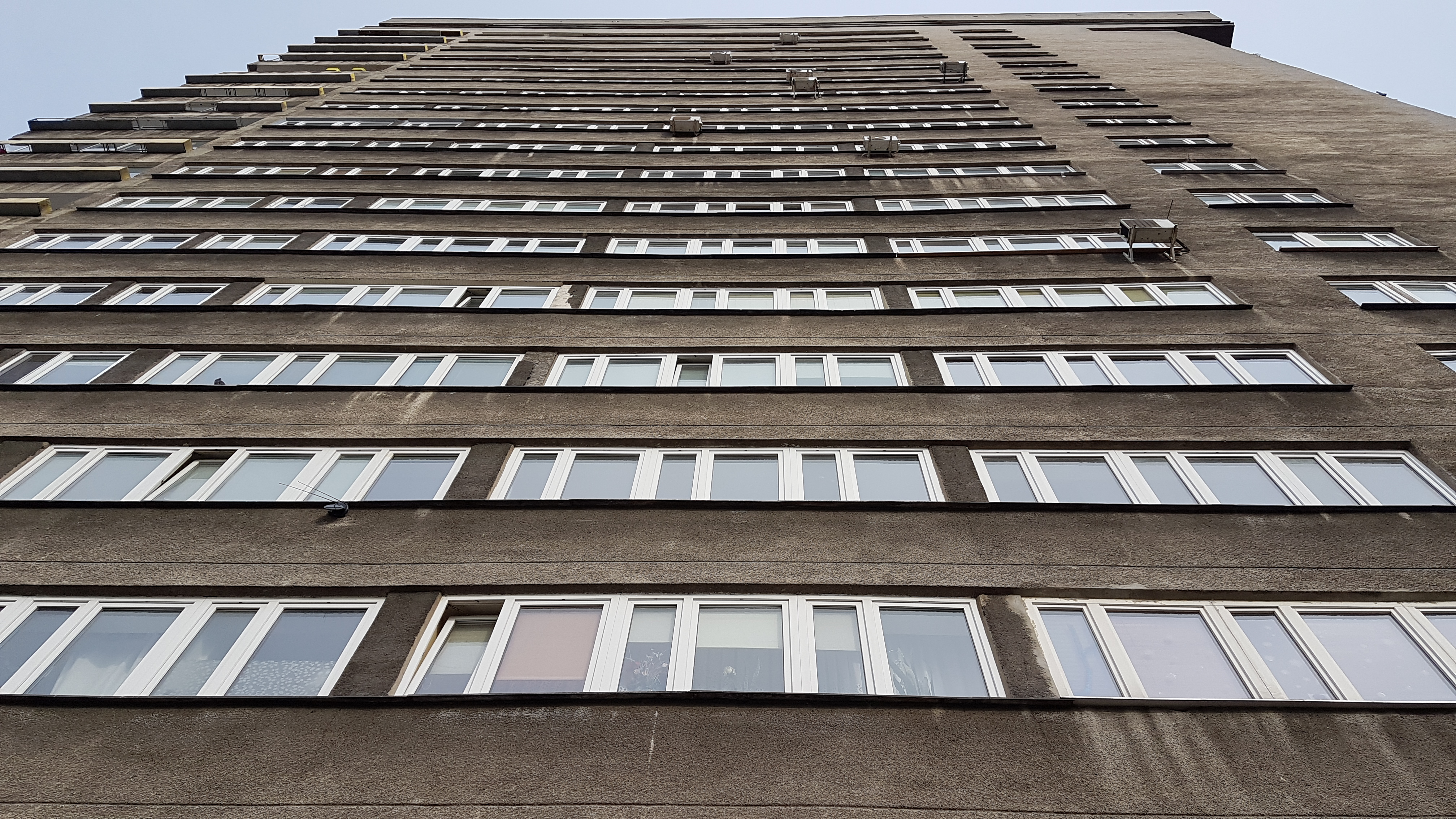 8 Smolna Street in Warsaw